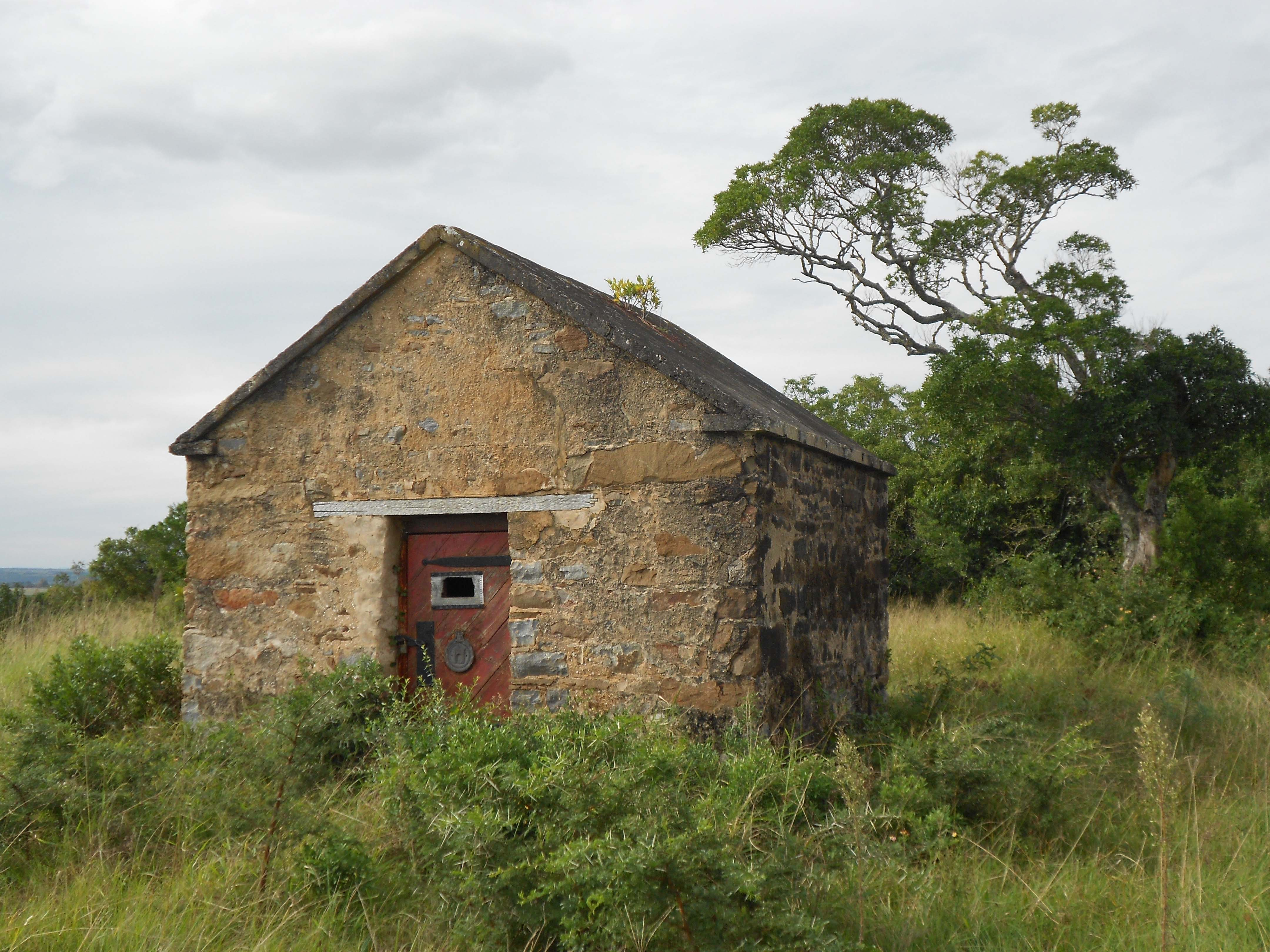 The Old Powder Magazine was erected in 1821 by the British Military. It usually carried about 273kg gunpowder, 7 000 ball cartridges and 60 rifles as stock. This media shows a South African Protected Site with SAHRA file reference 9/2/009/0012.